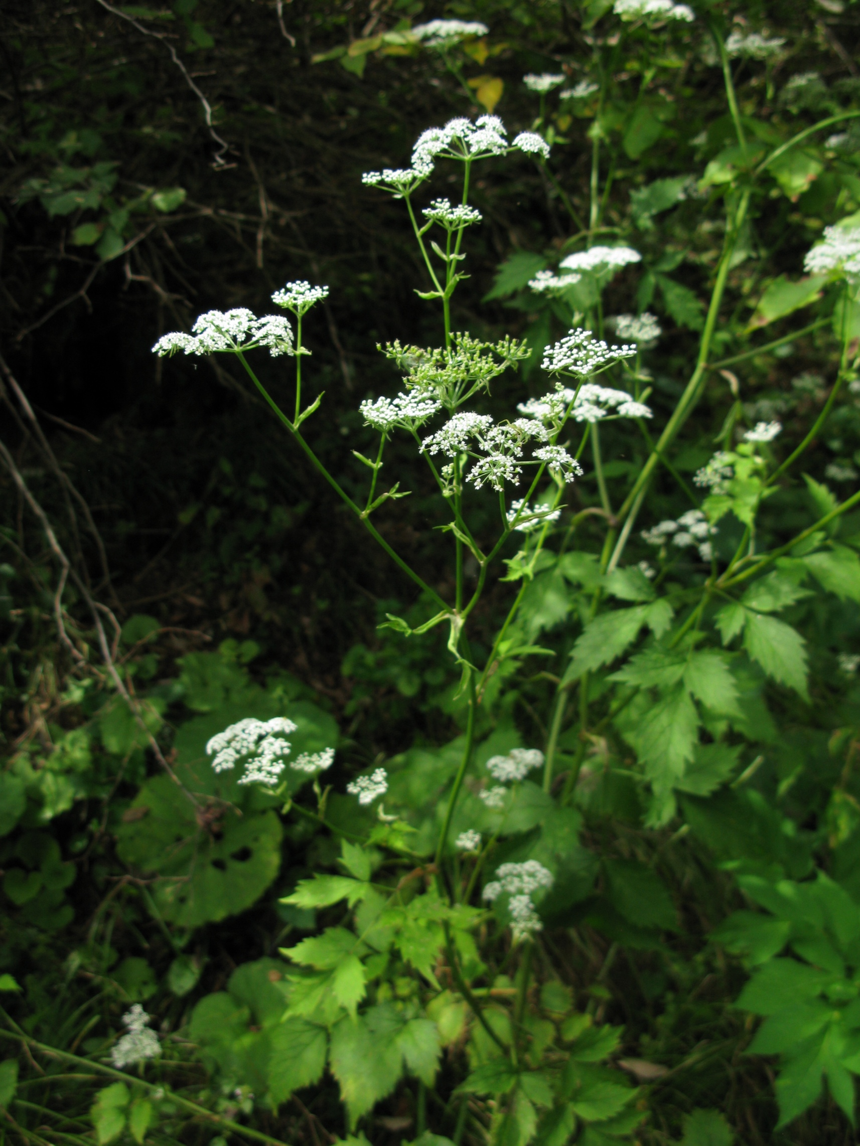 Ostericum sieboldii, Aizu area, Fukushima pref., Japan